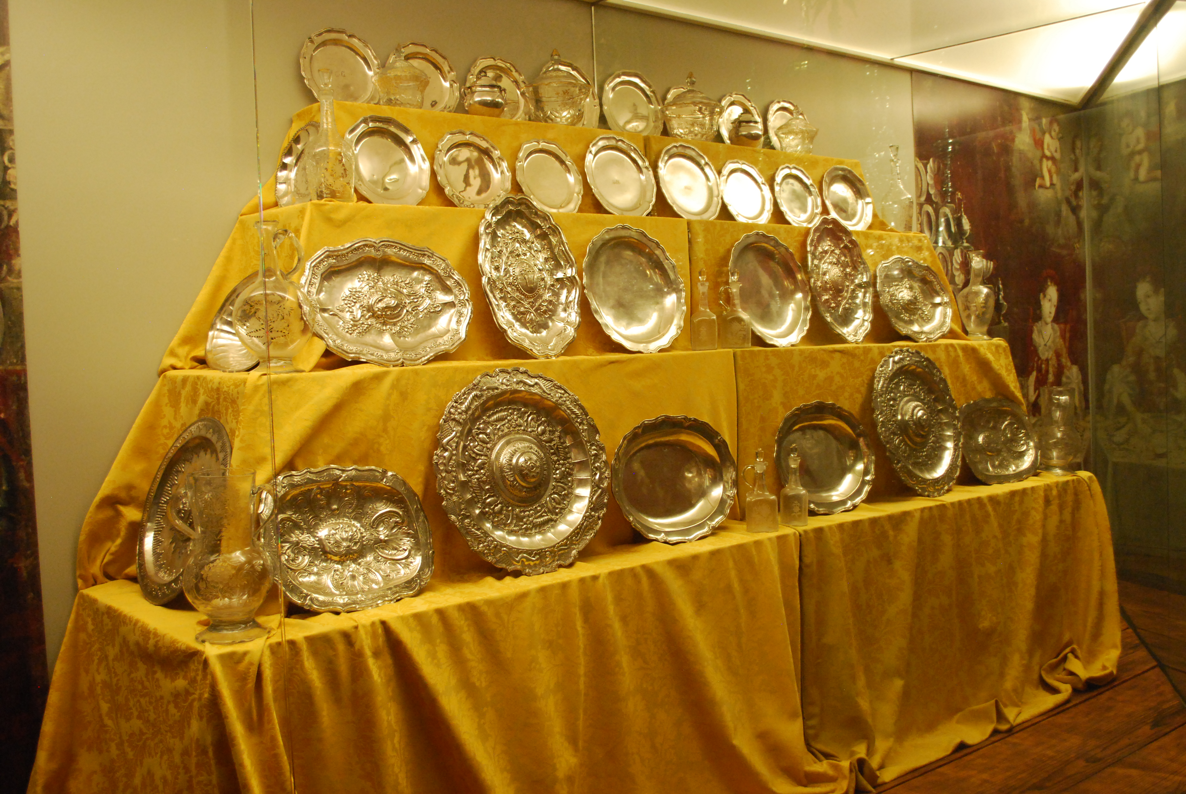 Silverware from the colonial period on for home use on display at the Franz Mayer Museum in Mexico City